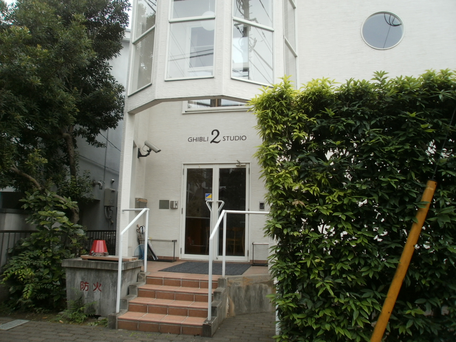 Studio Ghibli, studio 2nd